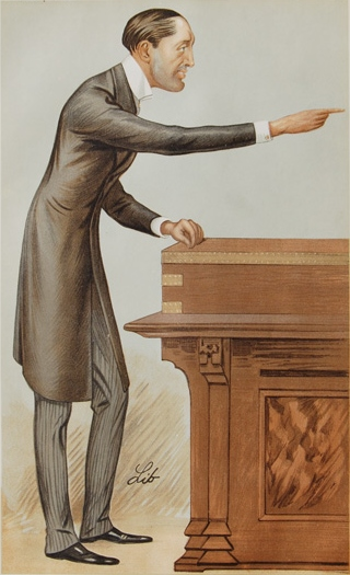 Caricature of Edward H. Carson. Caption read "Dublin University".